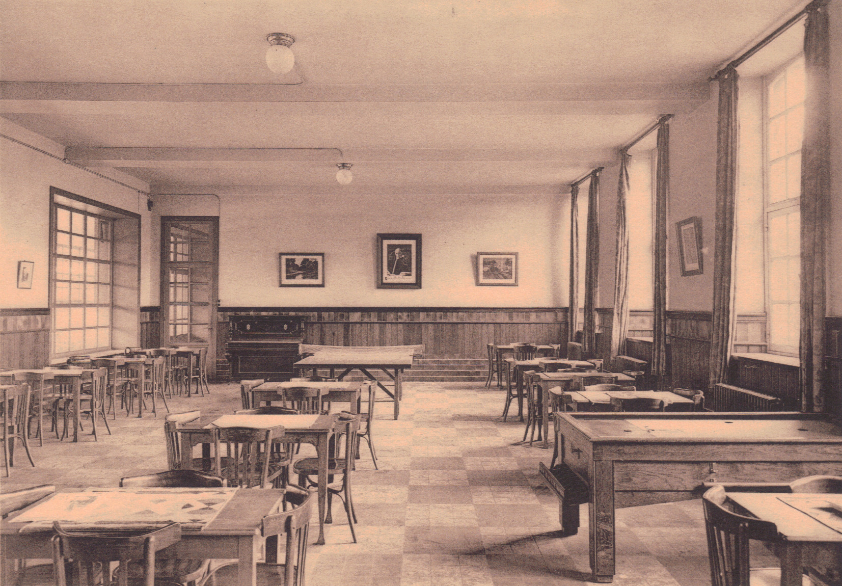 Bonne-Espérance Minor Seminary (Belgium), the recreation room of the philosophy section (20th century), with a portrait of Pope Pius XI in the background.